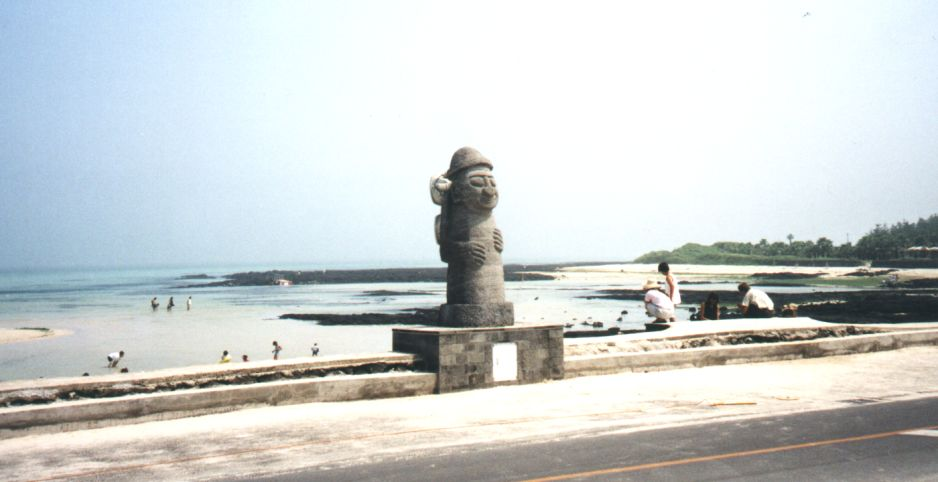 Dol hareubang at Hyeopjae Beach, Jeju Island, South Korea.